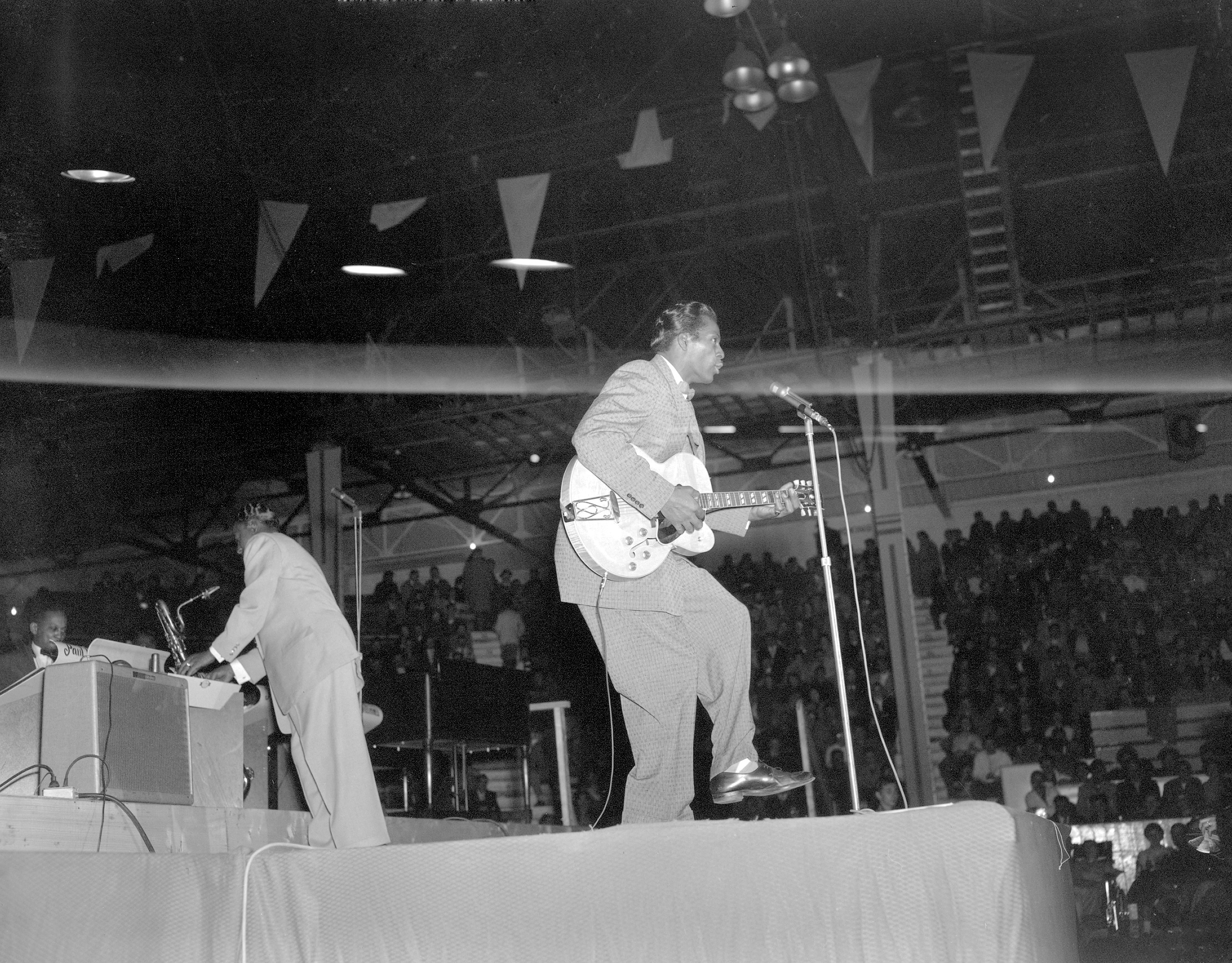 "The Biggest Show of Stars For ’57" concert in Edmonton, Alberta. Richard G. Proctor Photography Limited fonds, Provincial Archives of Alberta, RP166/9.